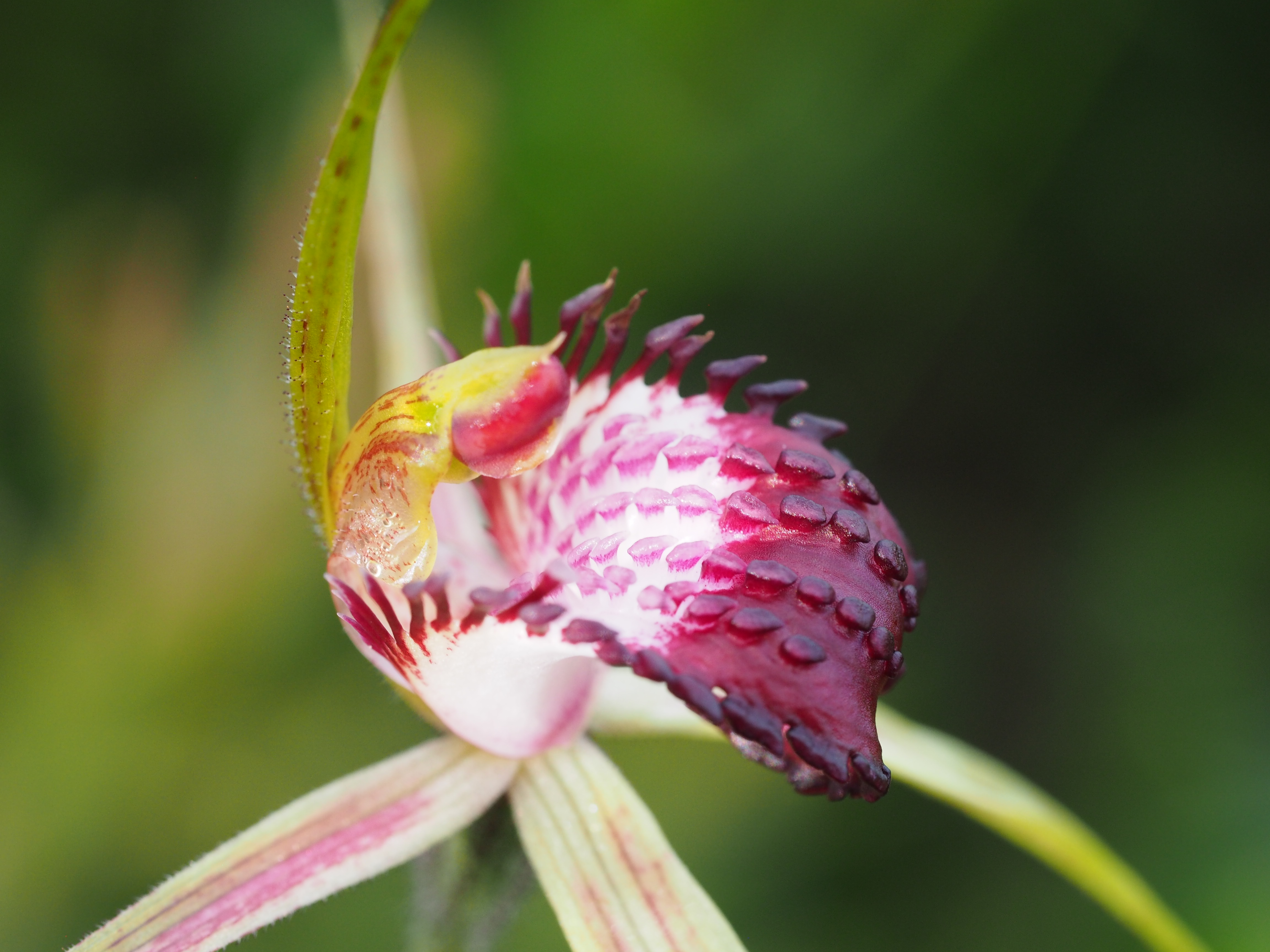 Caladenia applanata subsp. applanata growing near the end of Moses Rock Road in the Leeuwin-Naturaliste National Park in Western Australia